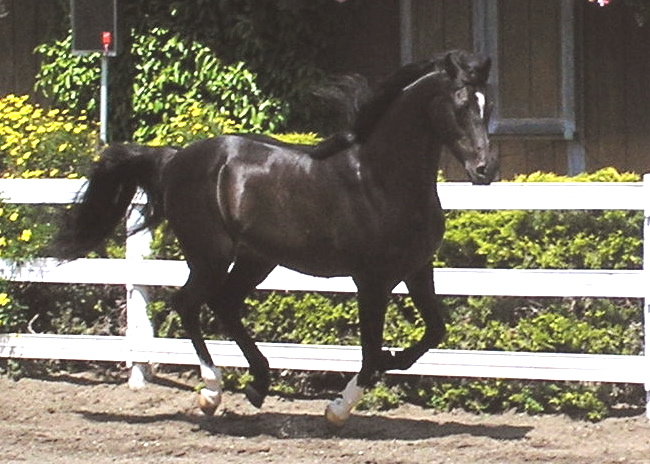 Purebred Arabian stallion Maclintock V (Desperado V x Marigold V) a dark bay